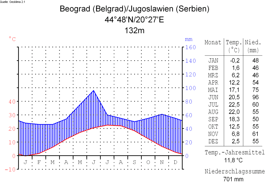 climate chart in the format by Walter and Lieth, metric, °Celsisus and millimeters, made with Geoklima 2.1